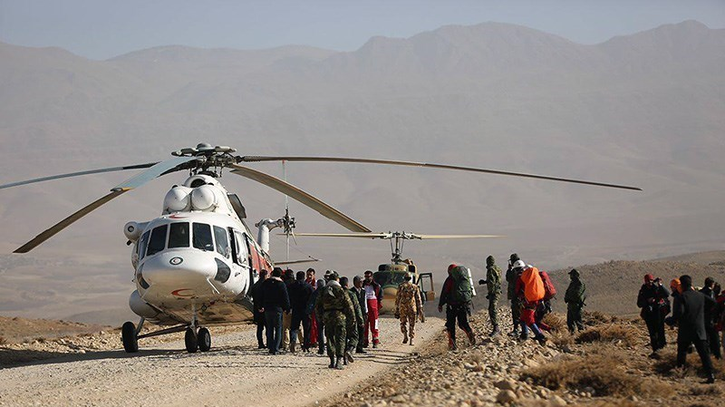 third day of searching for the plane ATR 72